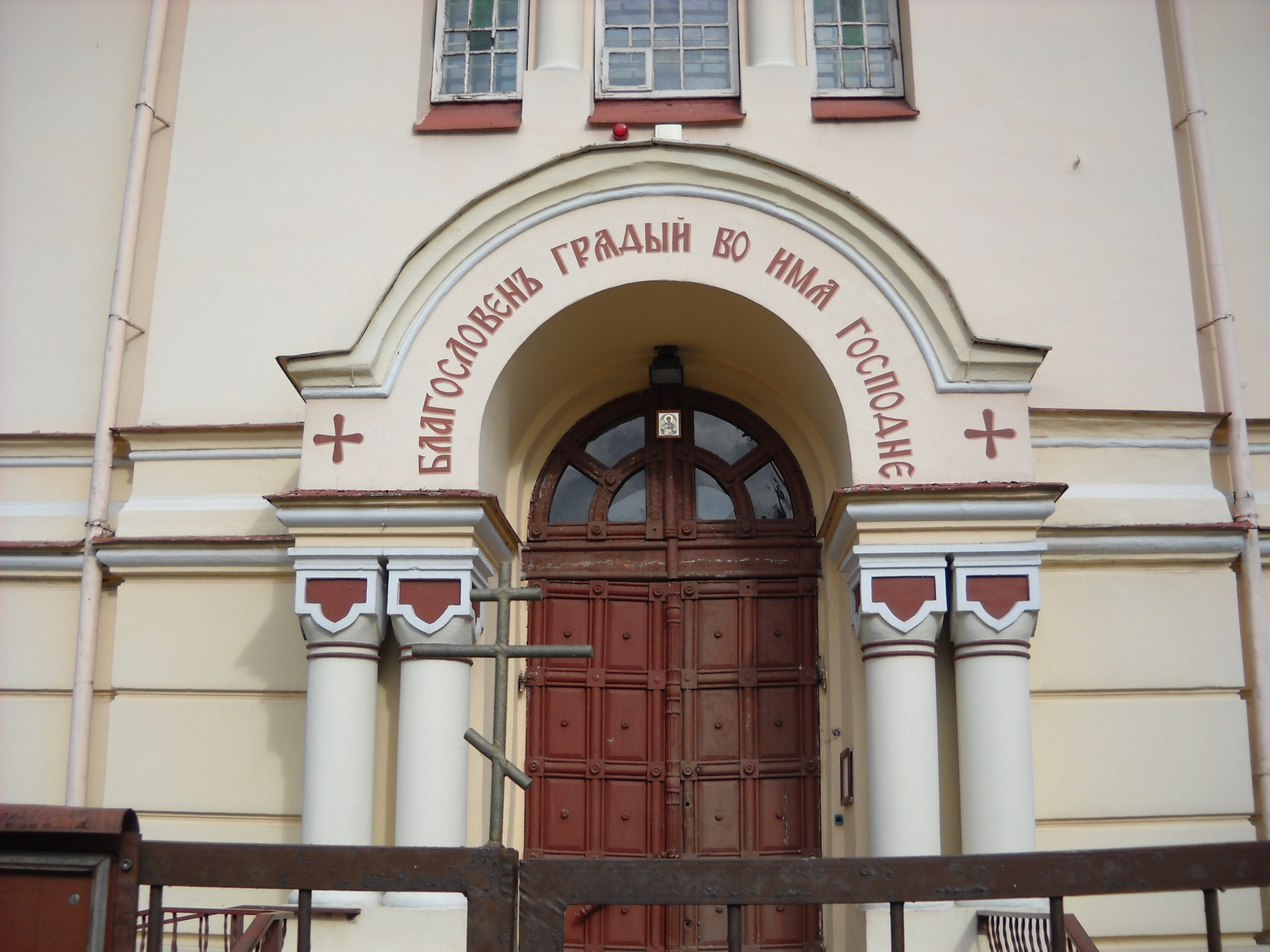 Orthodox Church of St. Michael in Vilnius. The main entrance.